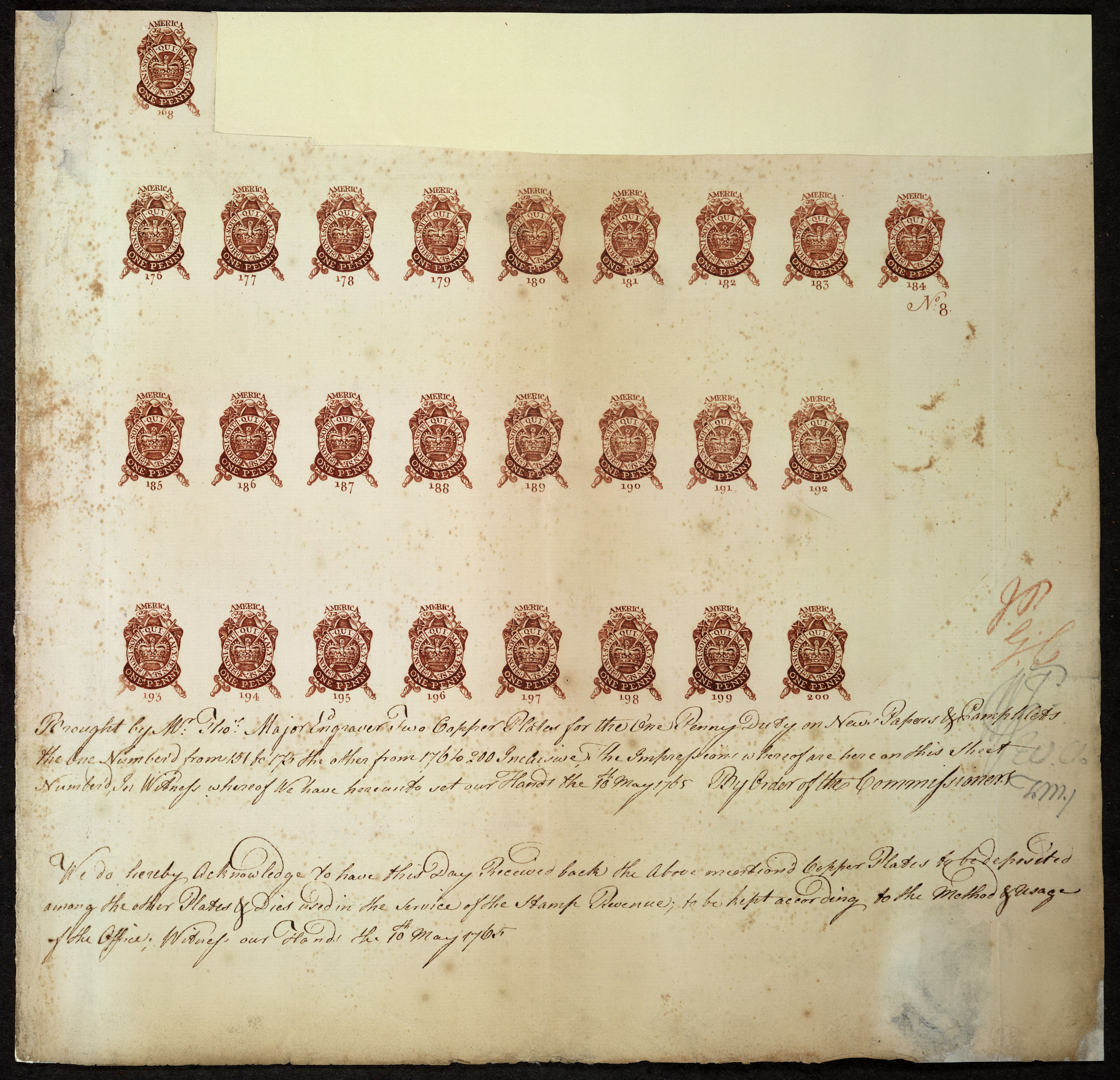 The 1765 Stamp Act created a direct tax of one penny per sheet on newspapers and required that the newspapers be printed on stamped paper purchased from government agents. The Board of Stamps prepared two hundred copper dies and eight plates of the one-penny stamps. The design consists of a mantle; St. Edward's Crown encircled by the Order of the Garter; and a scepter and sword. At top is the word AMERICA; at bottom the denomination ONE PENNY and the number of the individual die. Dark red proof impressions of the plates were made on thick laid paper before production of the stamped paper began. Only thirty-two copies of the original dark-red proof impressions made in 1765 have survived. Twenty-six of these are contained in this partial proof sheet owned by the British Library Philatelic Collections. Five more — three singles and a pair — are in private hands, and the one is in the Smithsonian National Postal Museum's permanent collection.